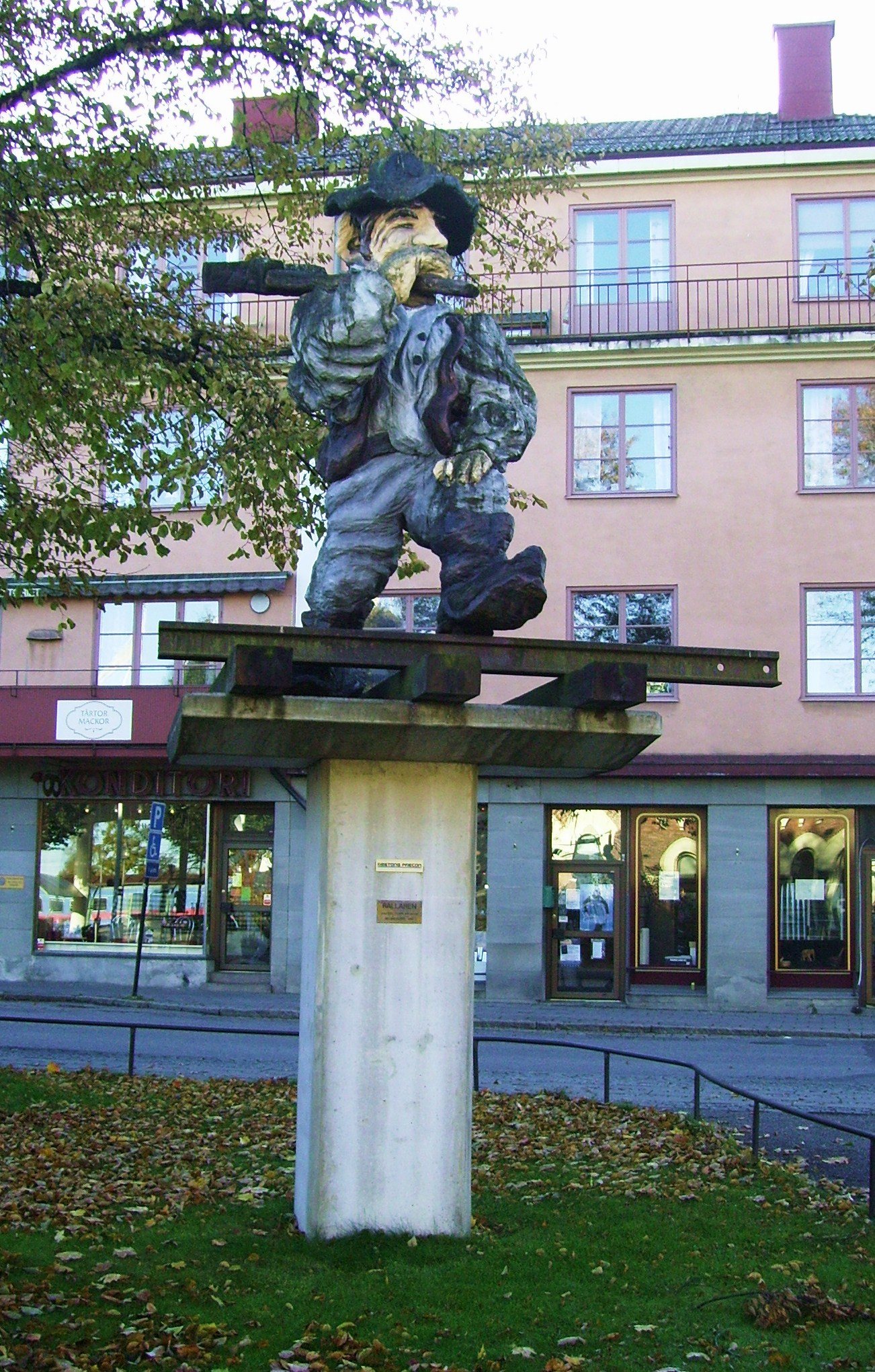 Picture of a railway builder in Hallsberg, by Sören Niklasson